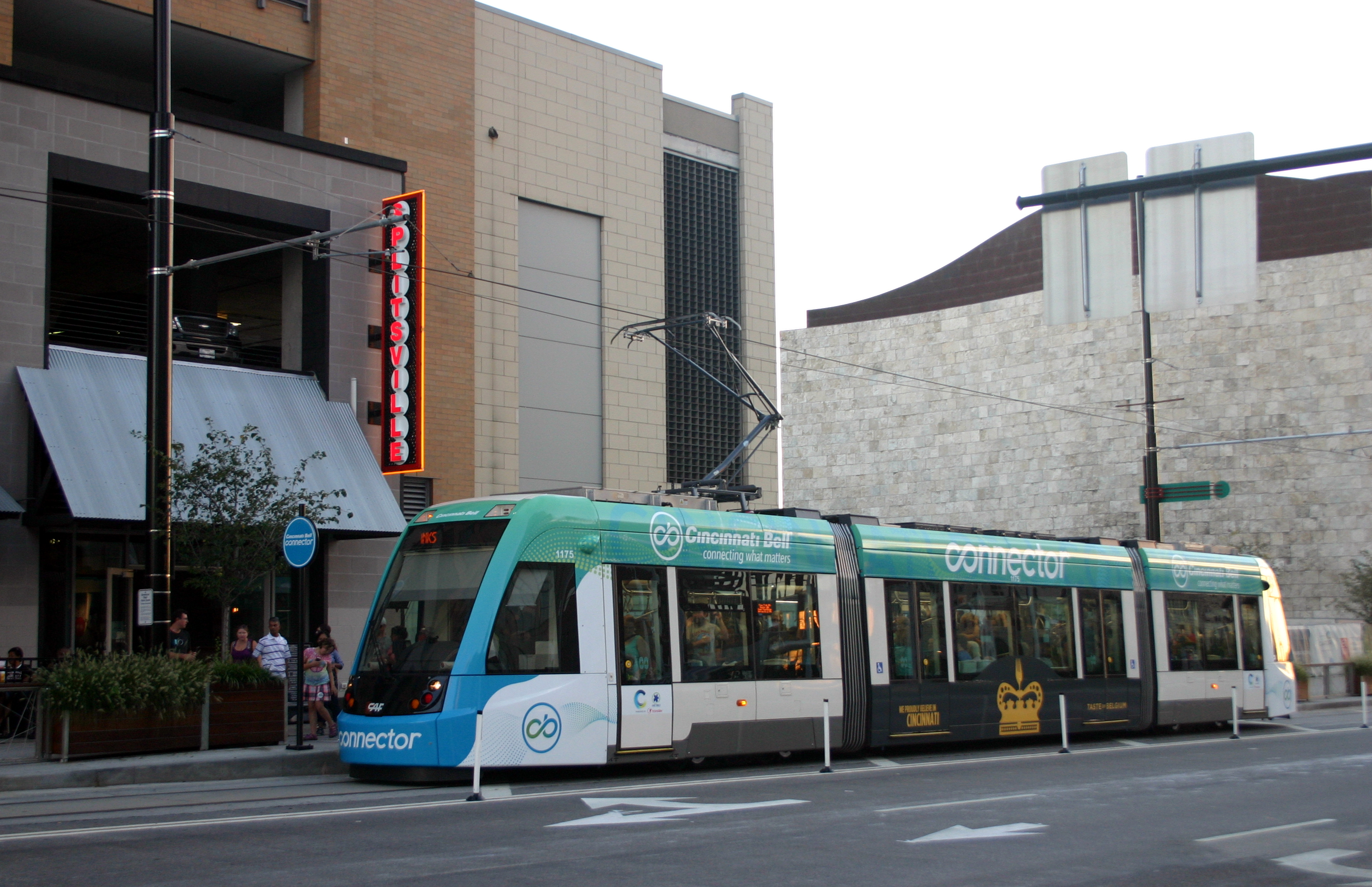 The Cincinnati Bell Connector streetcar, during its first weekend of public operation, stopped at Station 1 - The Banks just before sunset on September 11, 2016.